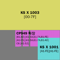 Layout of Windows code page 949 for Korean.